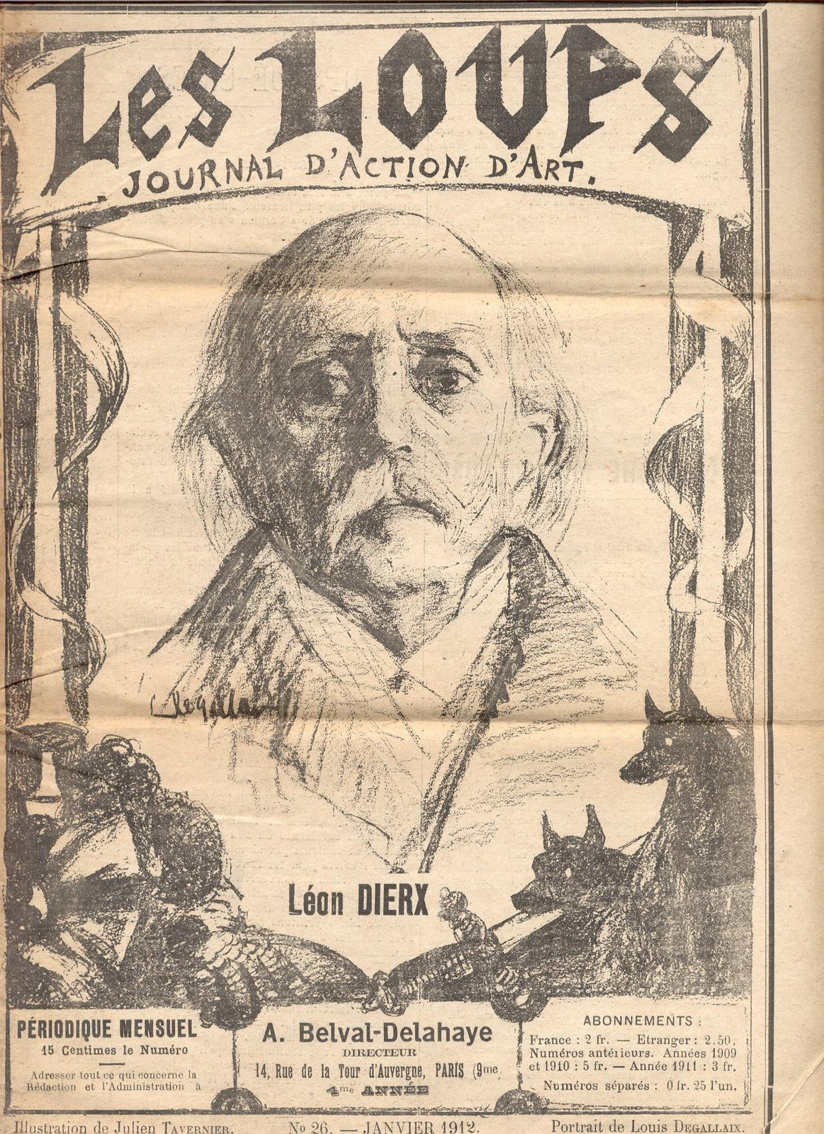 Léon Dierx (1838 - 1912) - French poet from the island of La Réunion.